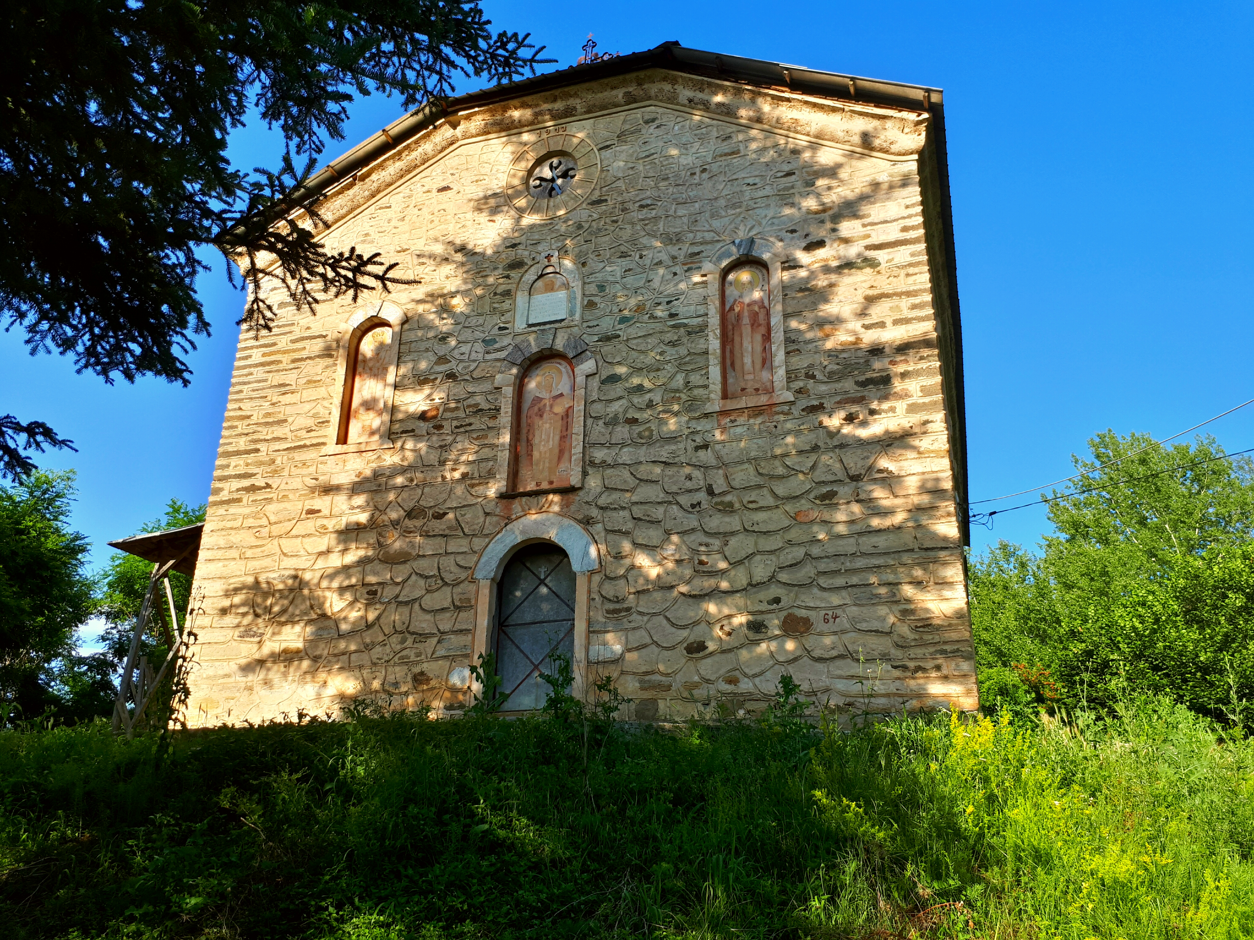 View of the St. Petka Church in the village Grešnica